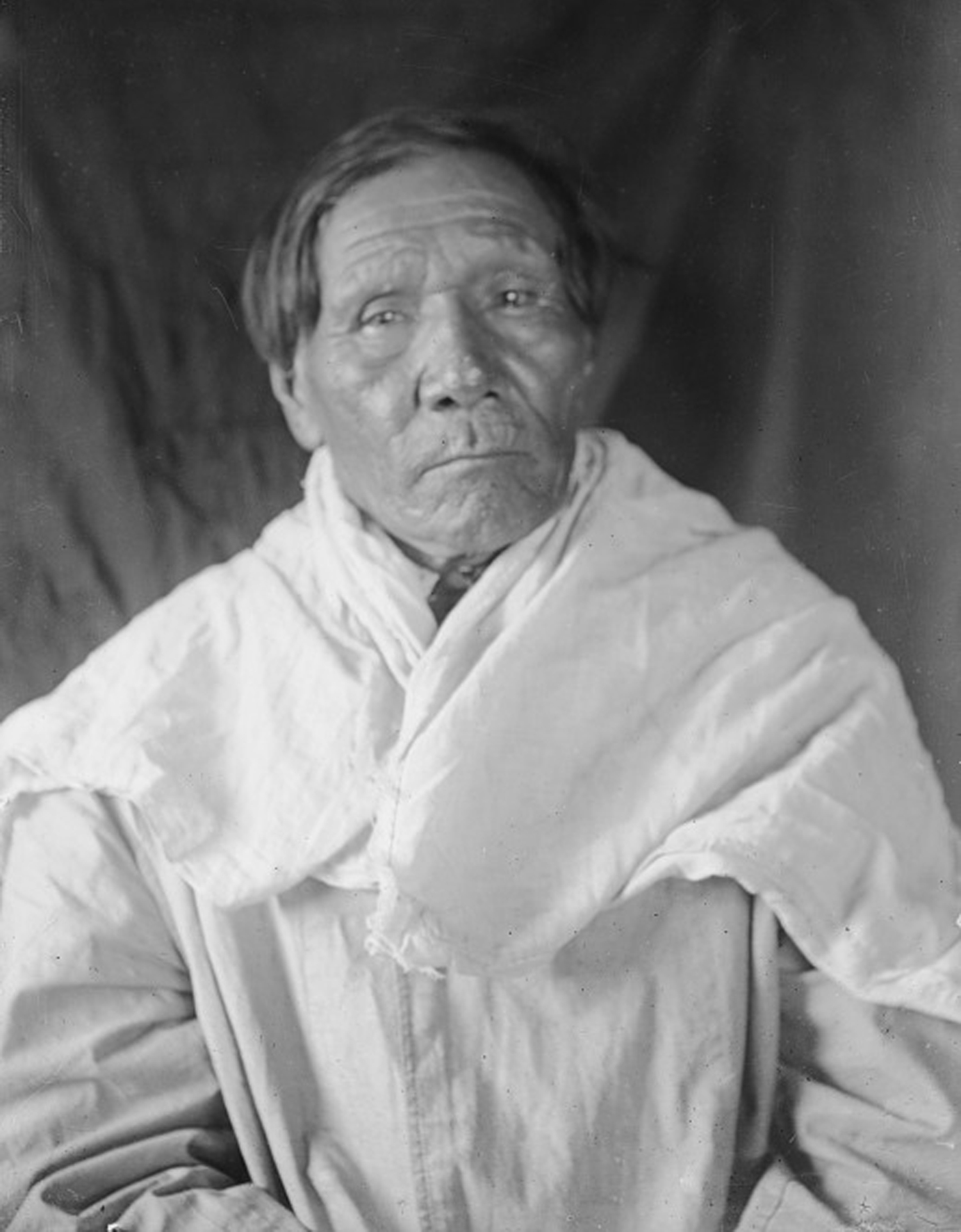 Jaw (Ćehu′pa) or His Fight (Oki' cize-ta'wa) by Frances Densmore 1913